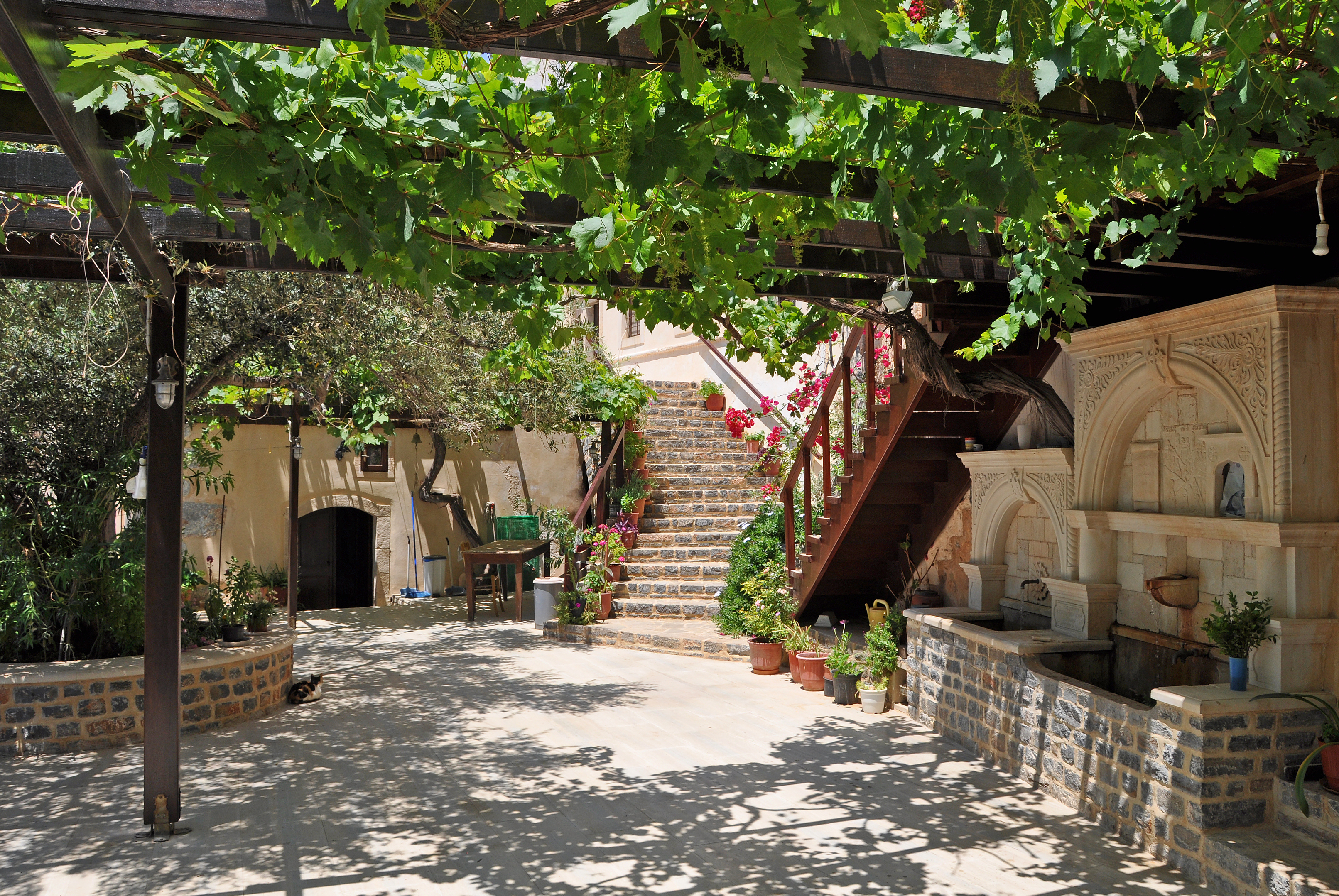 Kapsa monastery (Μονή Καψά), Crete (Greece)